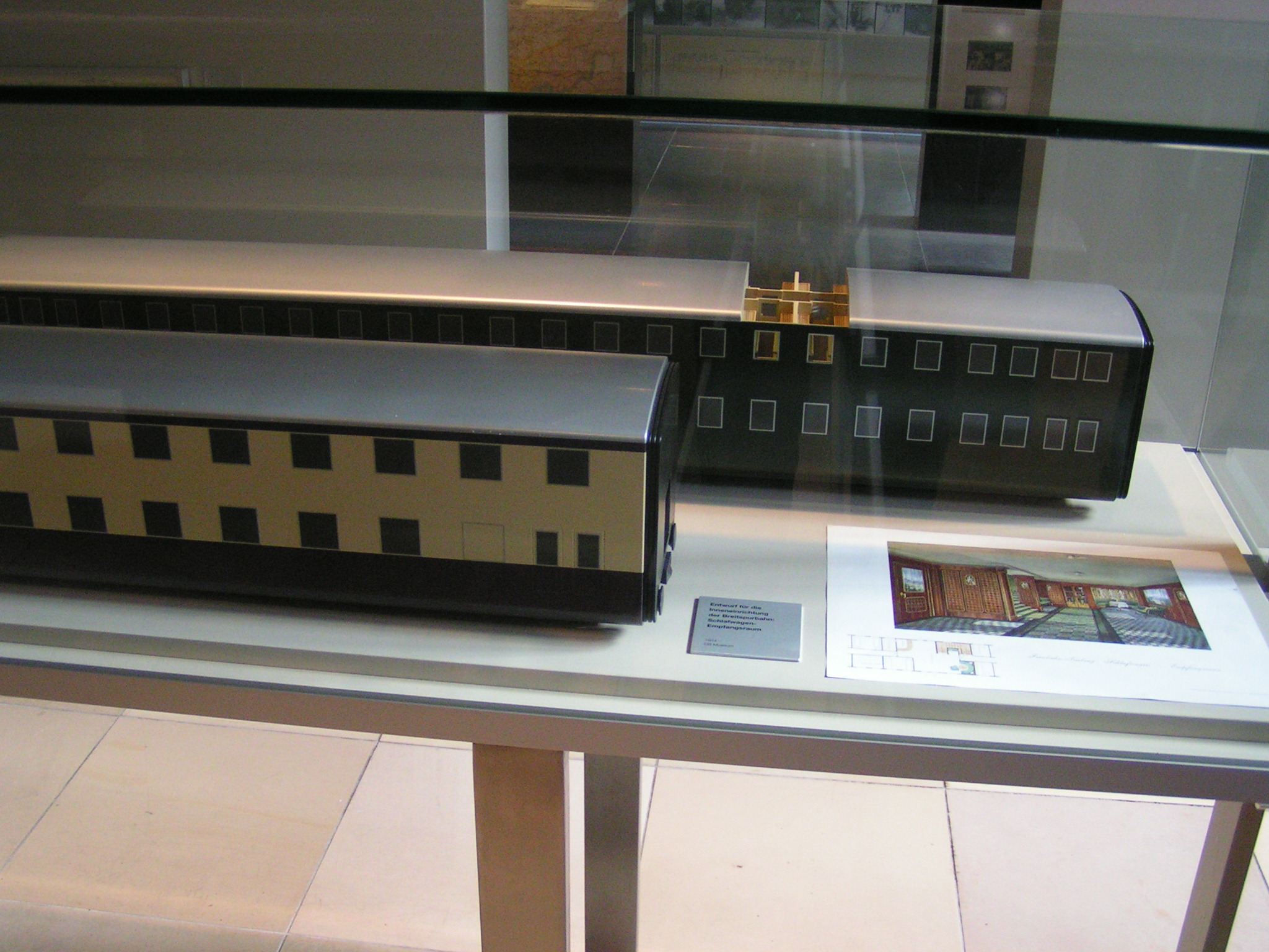 Models of the "Breitspurbahn" (broad gauge railroad) planned during WW II by Nazi Germany, on display at DB museum, Nuremberg